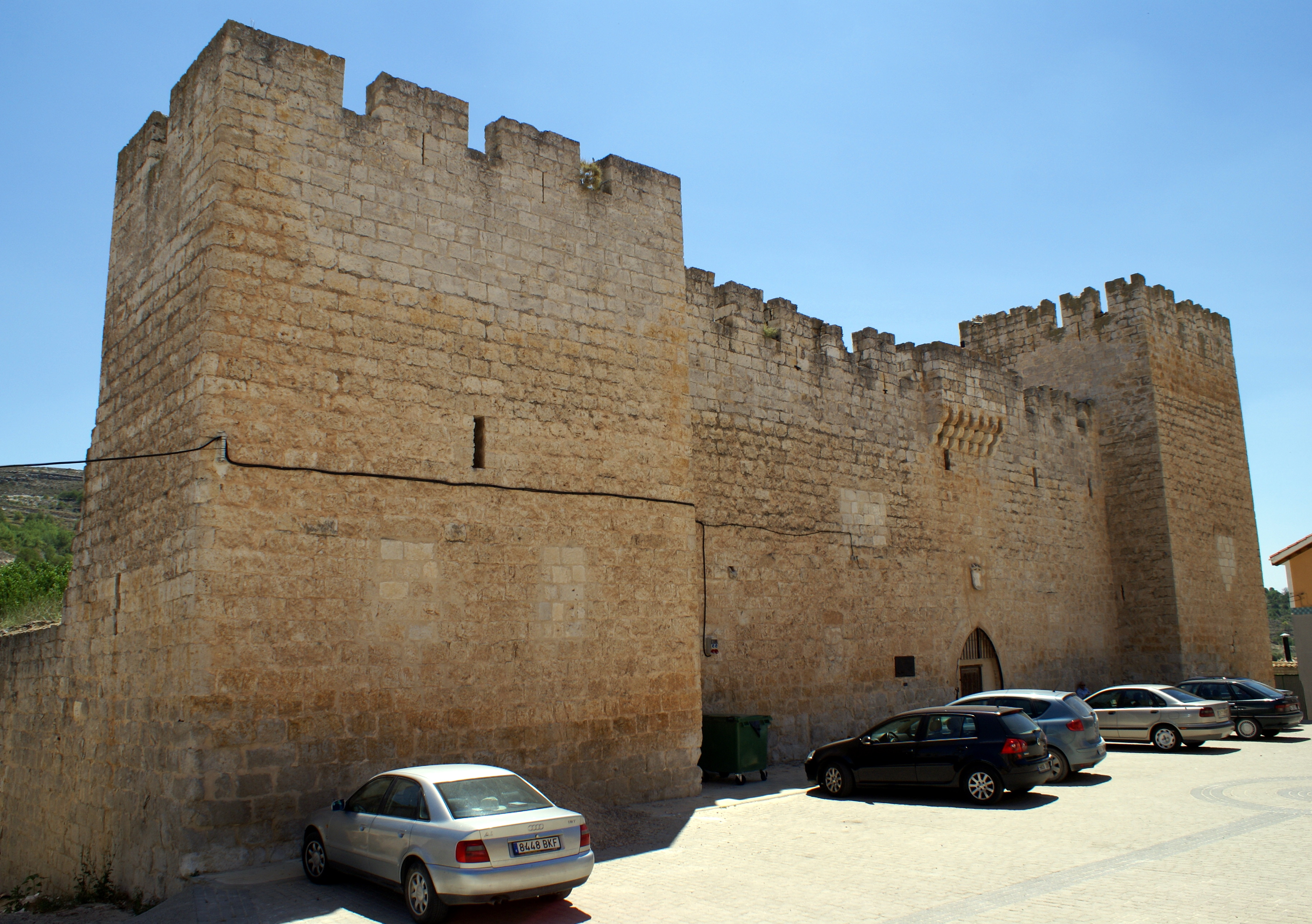 Palace of Zúñiga family in Curiel de Duero, Valladolid, Spain.